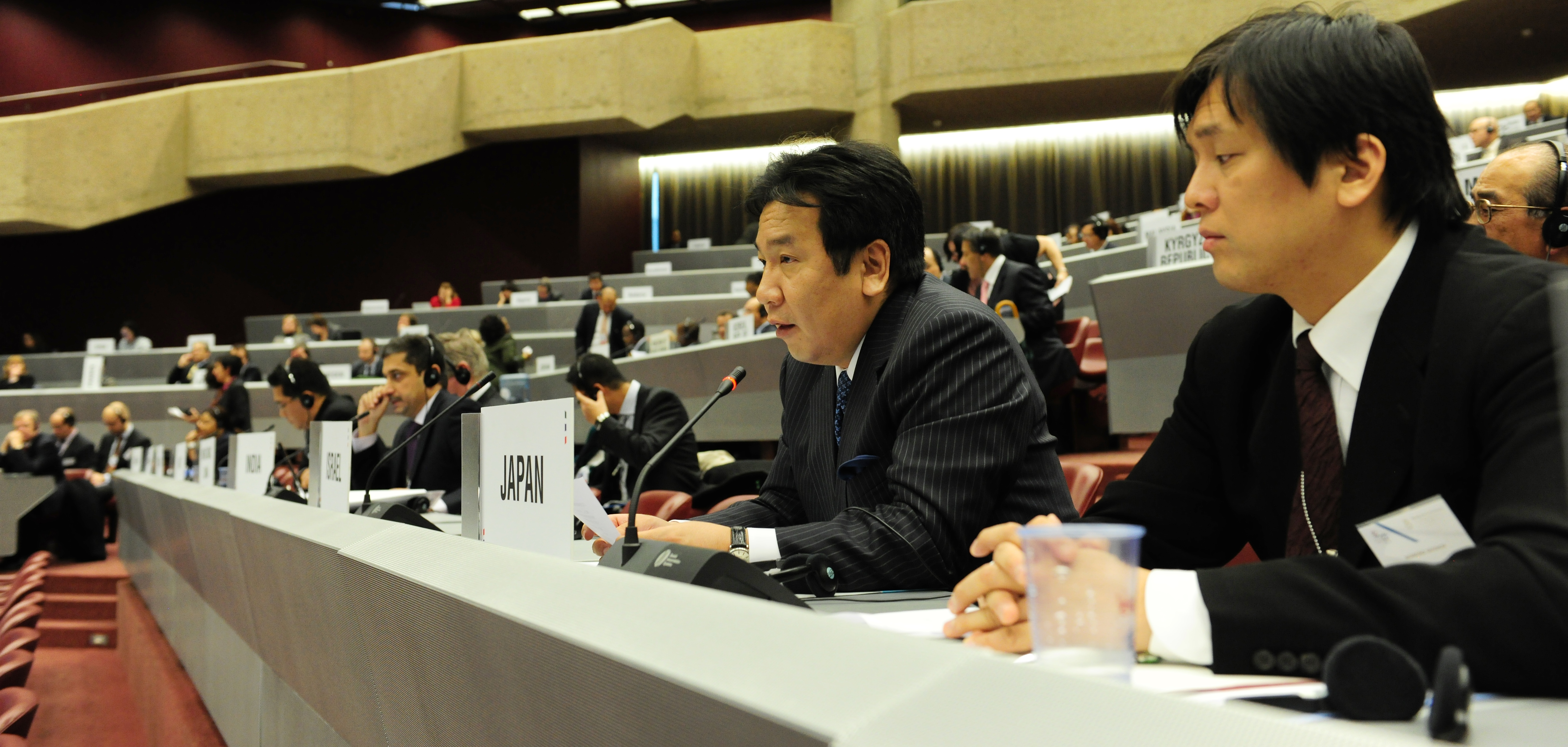 Ministerial Conference 2011